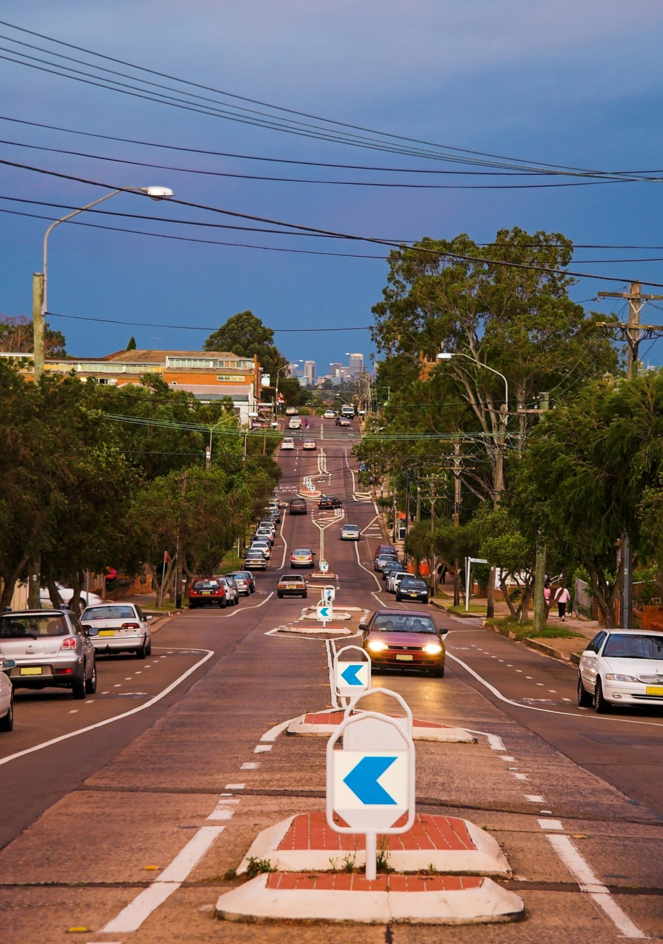 Photo taken 15 Nov 2006 by blu3d facing North East on Lakemba Street, Lakemba.